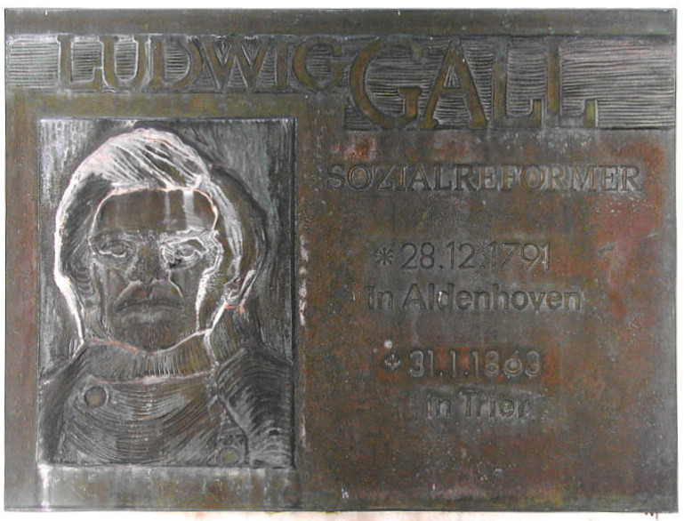 Memory plaque in Aldenhoven at the Ludwig-Gall-Haus for Ludwig Gall, "the saver of Mosel wine growing"